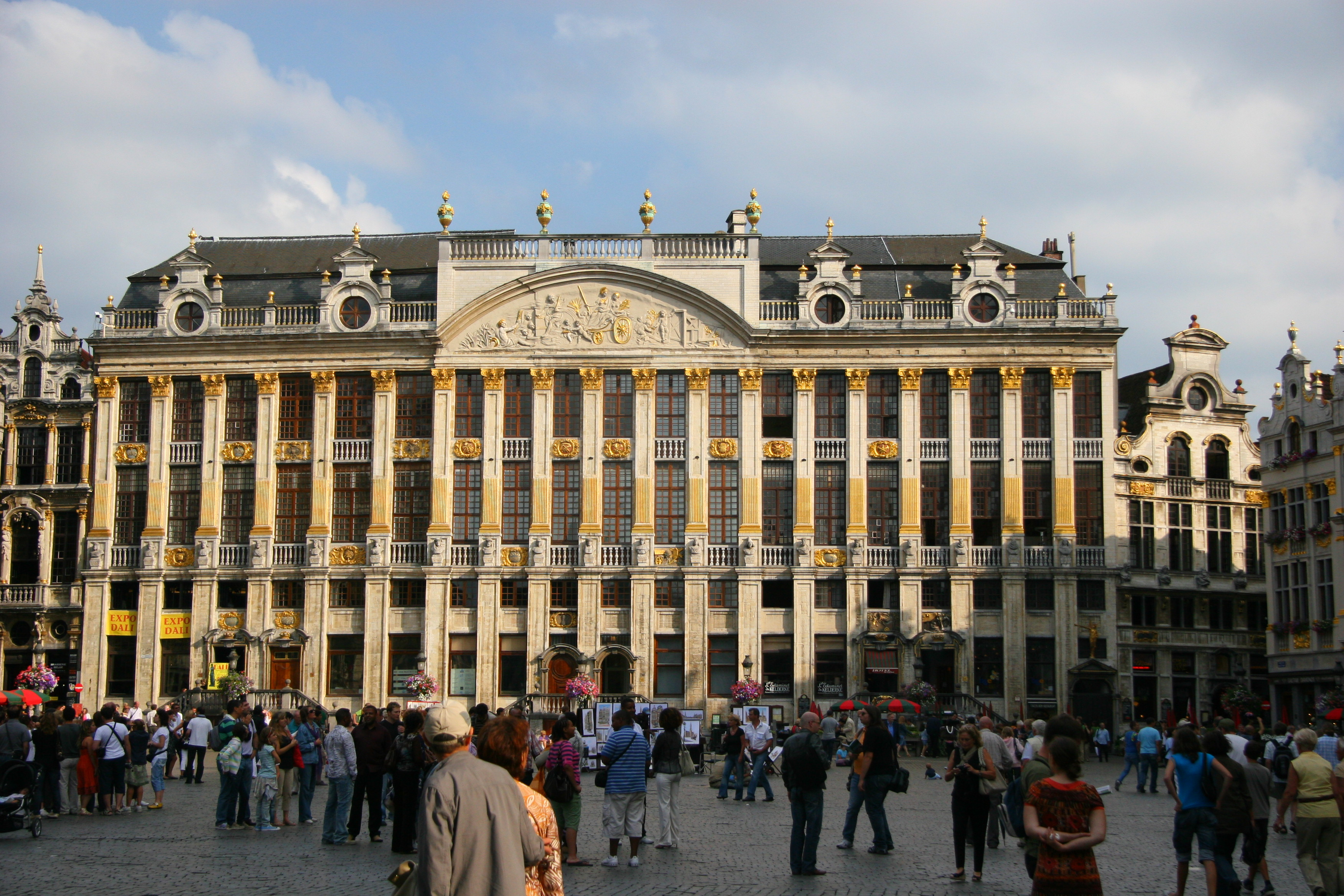 Maison des Ducs de Brabant on the Grand Place in Brussels, Belgium